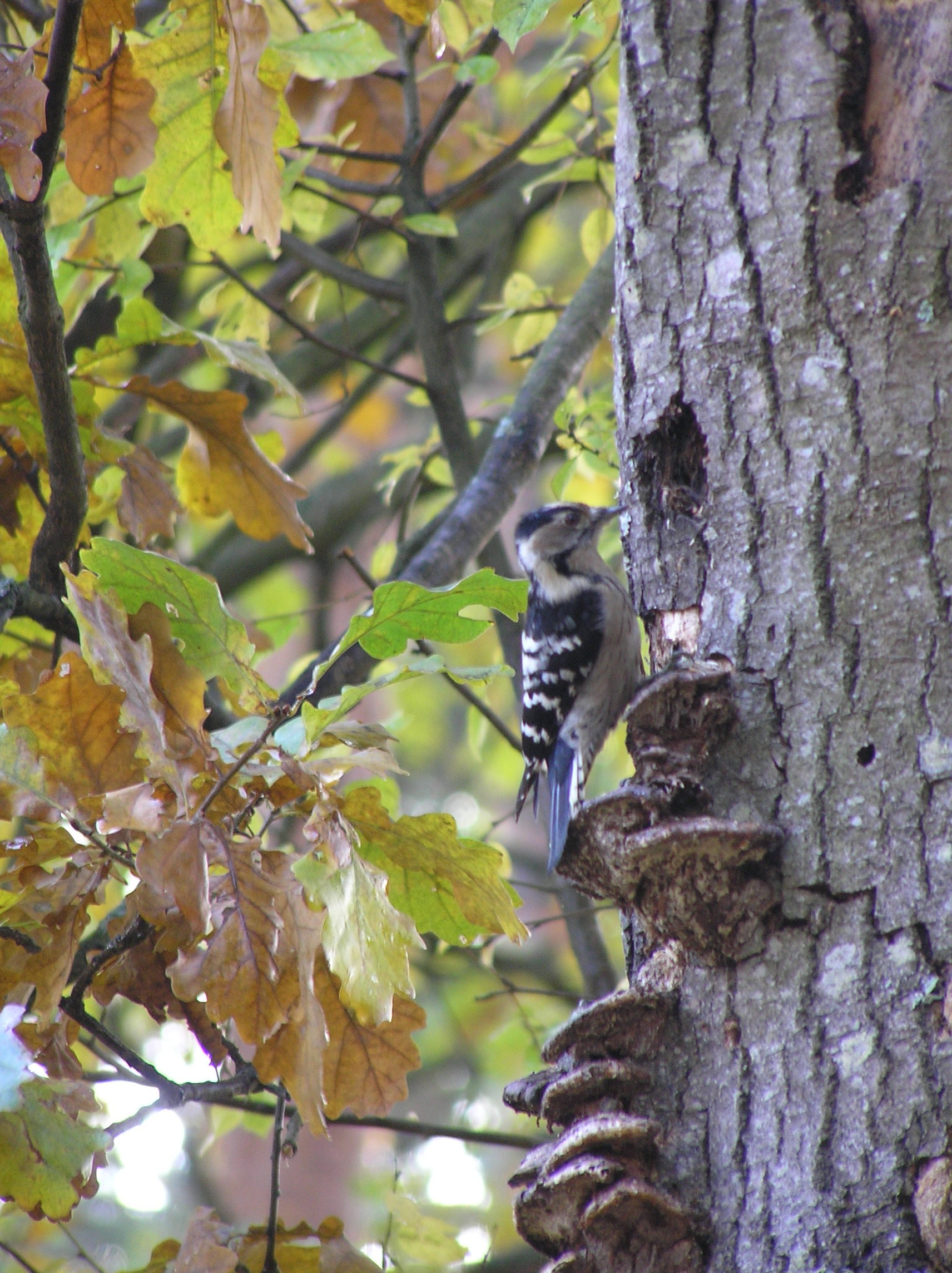 Dendrocopos minor hollownes and mushrooms tree, Brok, Poland